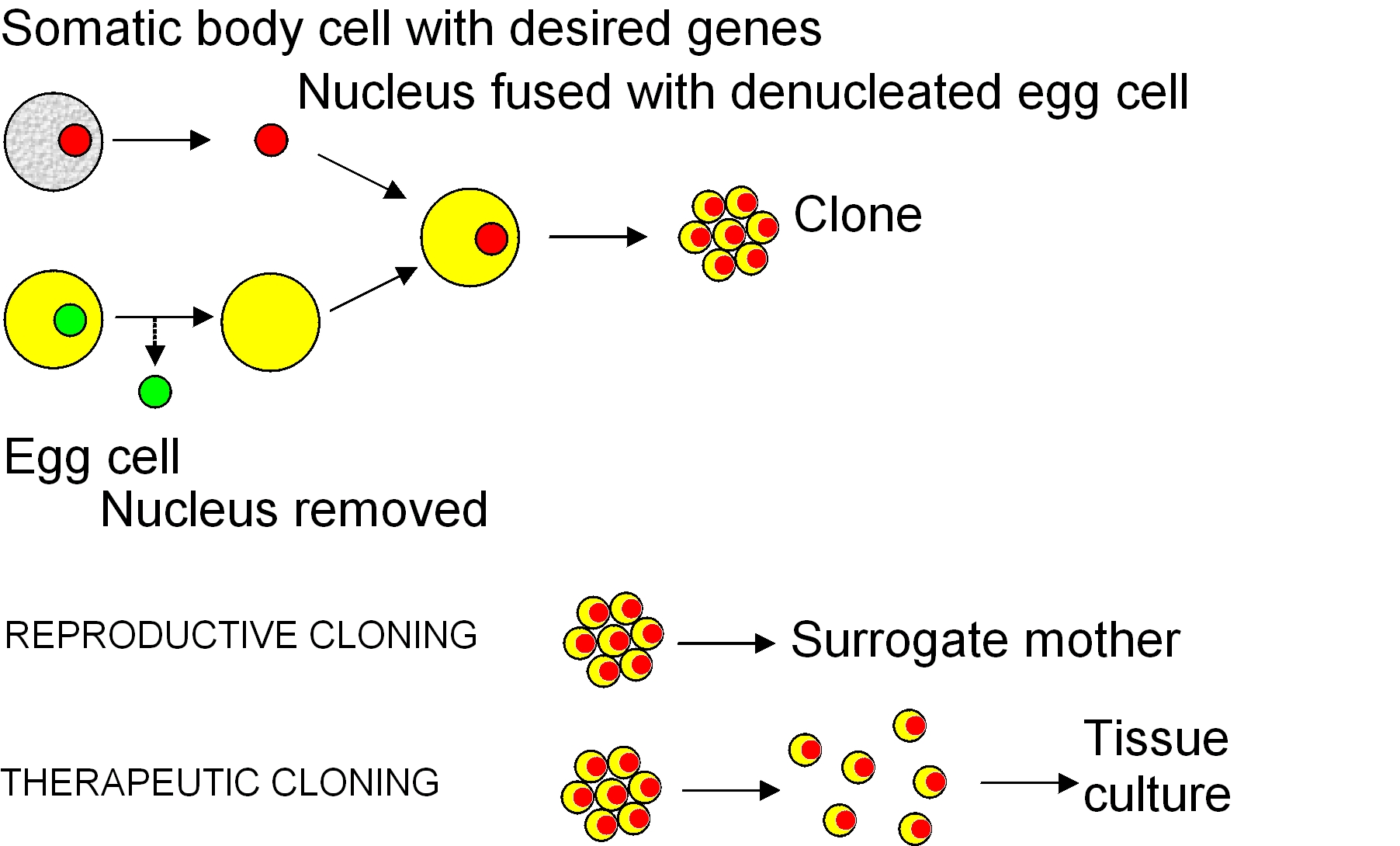 Reproductive and therapeutic cloning english diagram